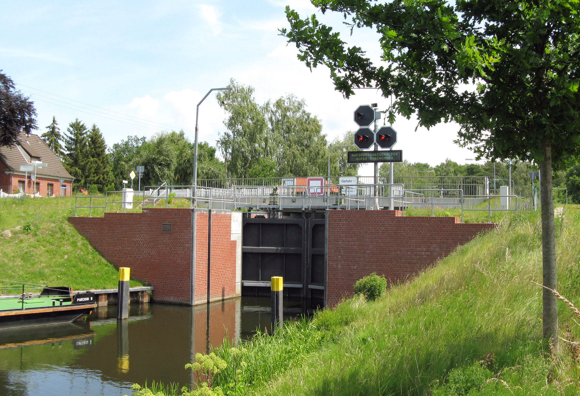 Canal lock in Garwitz, disctrict Parchim, Mecklenburg-Vorpommern, Germany